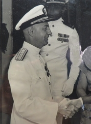 Charles Lorain Carpenter, receiving Rear Admiral epaulets in 1956. CLC Family image.